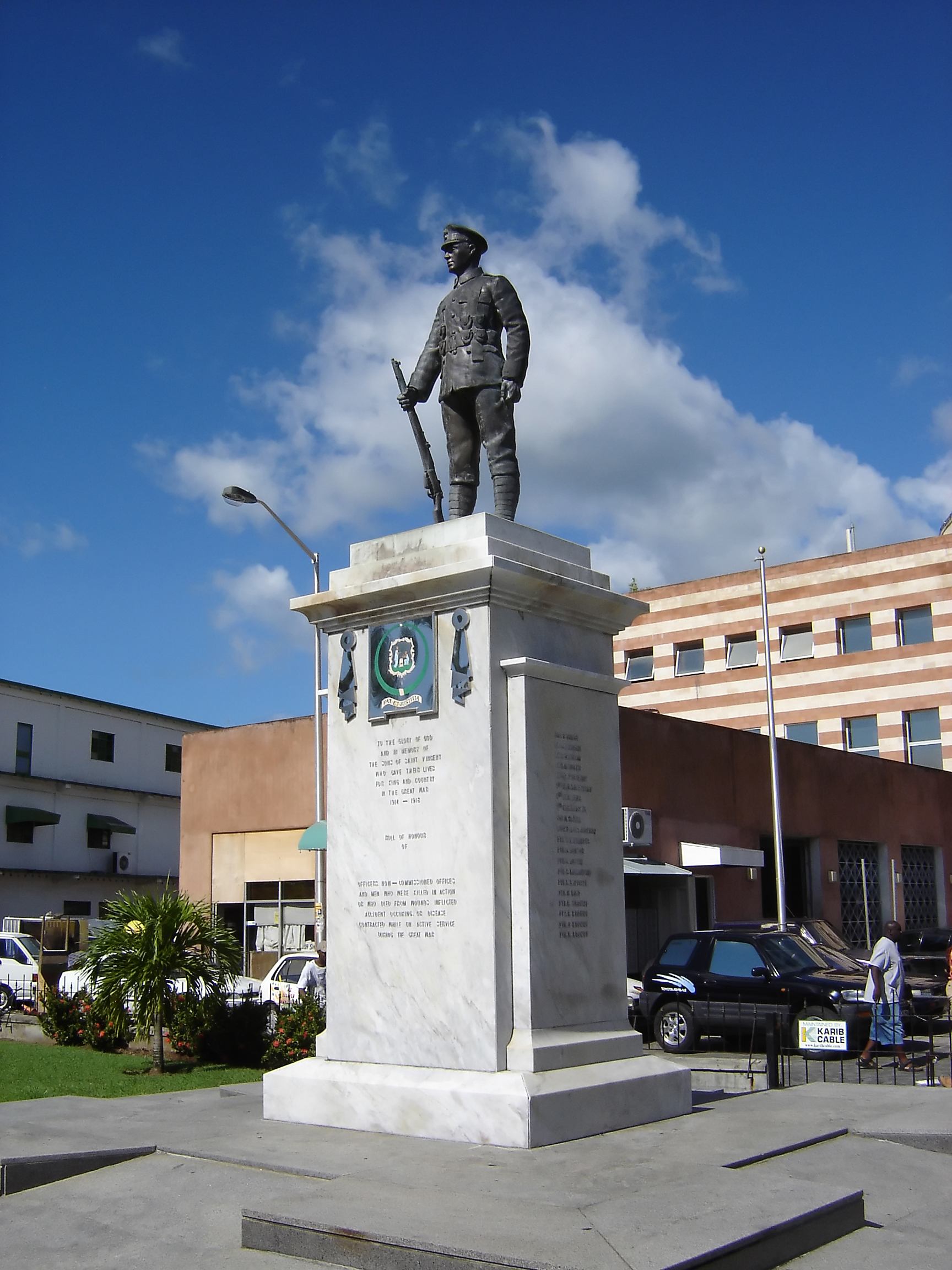 KIngstown, St Vincent - war memorial